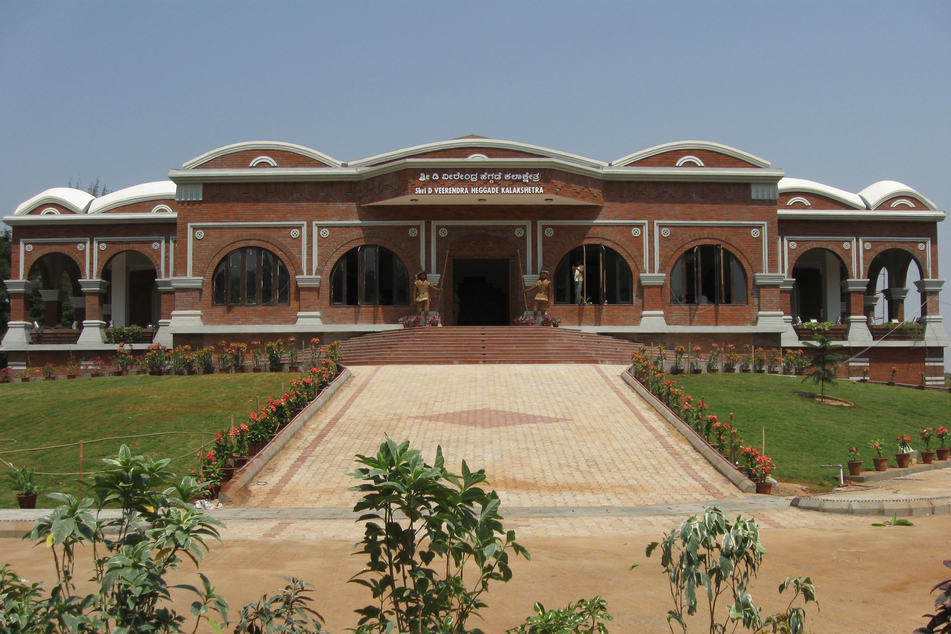 Dr.D.V.H. Auditorium